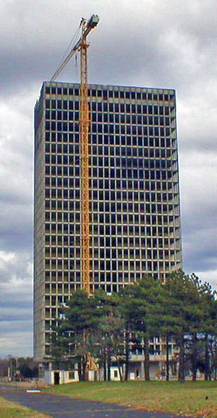 Ušće tower undergoing reconstruction